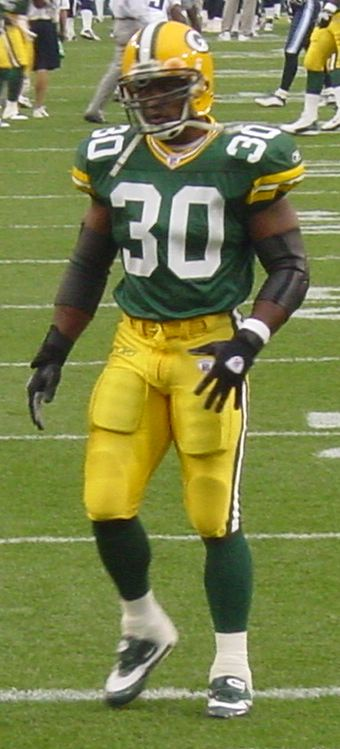 Ahman Green warming up for a preseason football game against the Tennessee Titans on August 29, 2003. The game would include a two hour rain delay but I managed to save my camera.